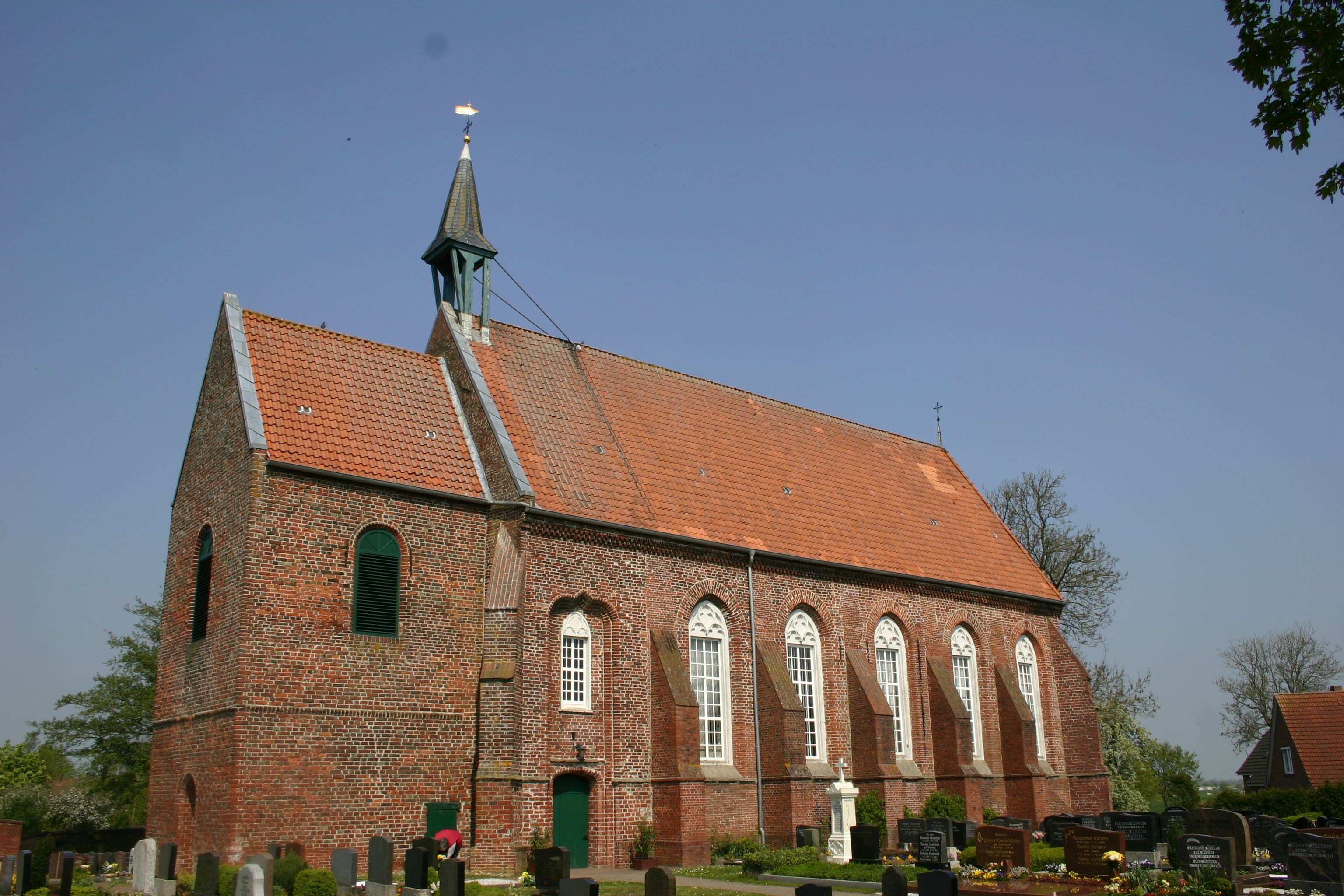 Historic church in Twixlum, Emden, East Frisia, Germany